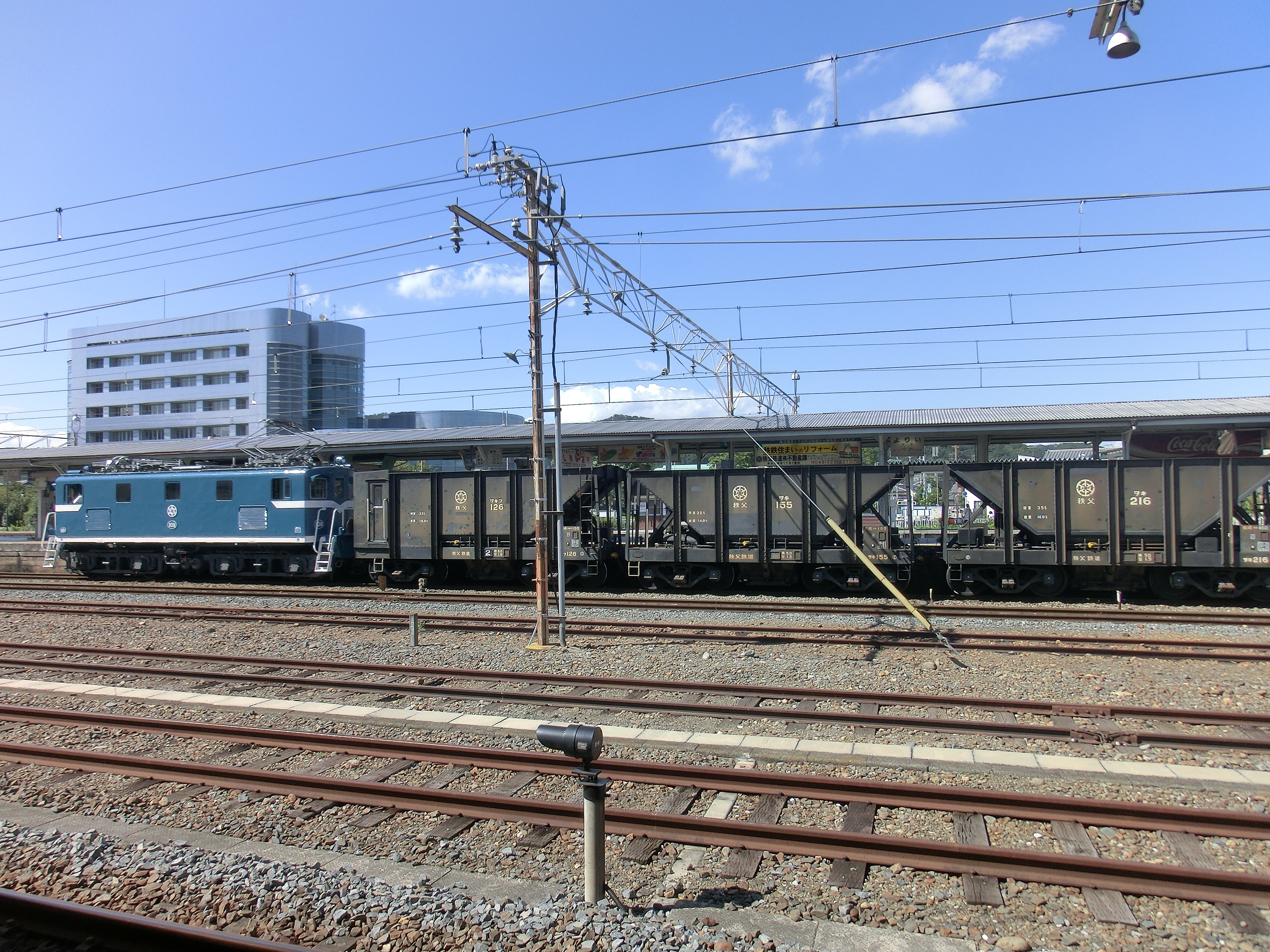 Chichibu Railway DeKi 108 on a freight train at Yorii Station